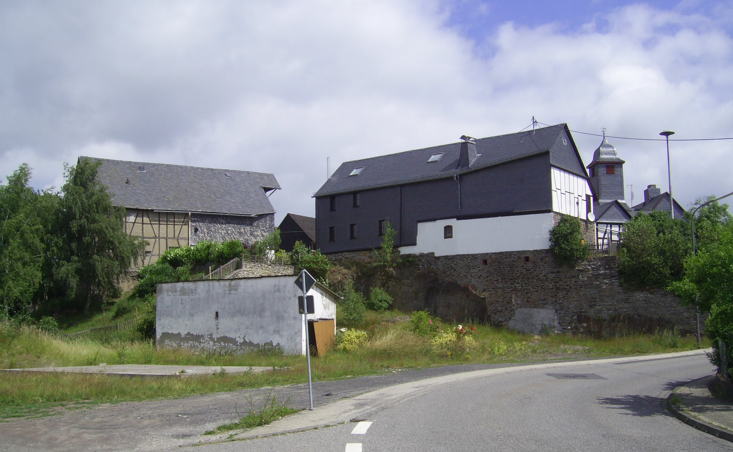 Village Bärenbach in the Hunsrück landscape, Germany.